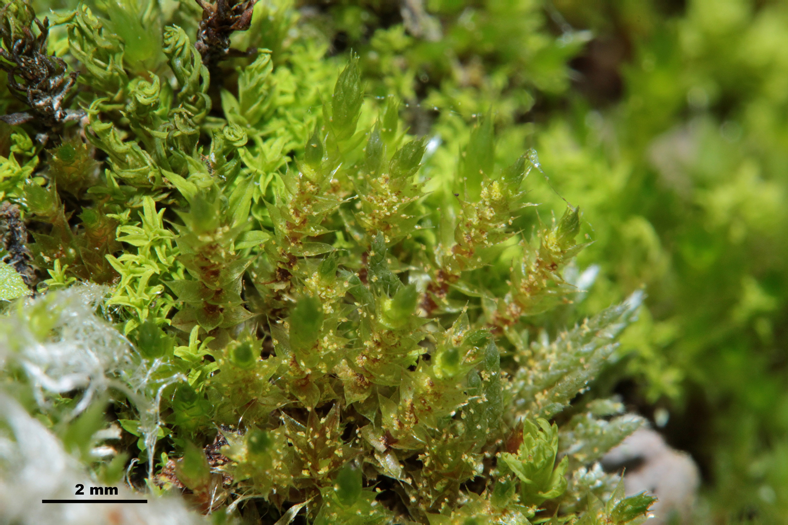 Bryum gemmiferum